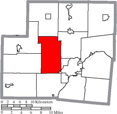 Map of the municipal and township boundaries of Shelby County, Ohio, United States, as of the 2000 census, with the location of Turtle Creek Township highlighted. Township borders are shown only in unincorporated areas in order to differentiate incorporated and unincorporated areas more clearly.